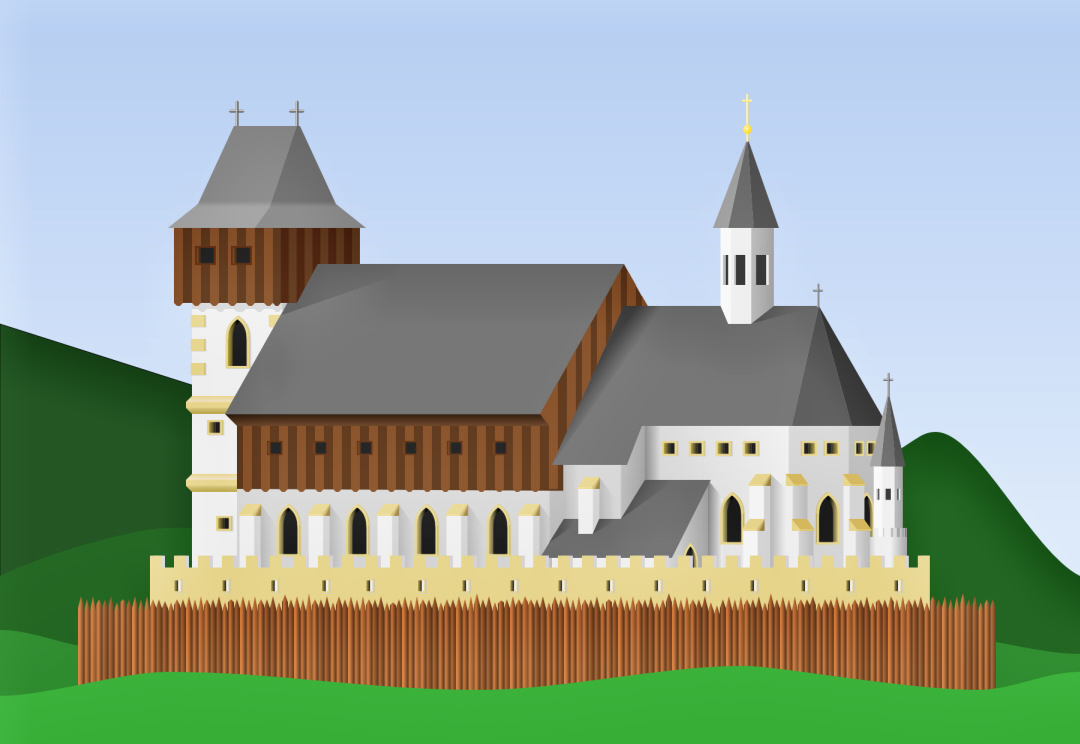 fortified church